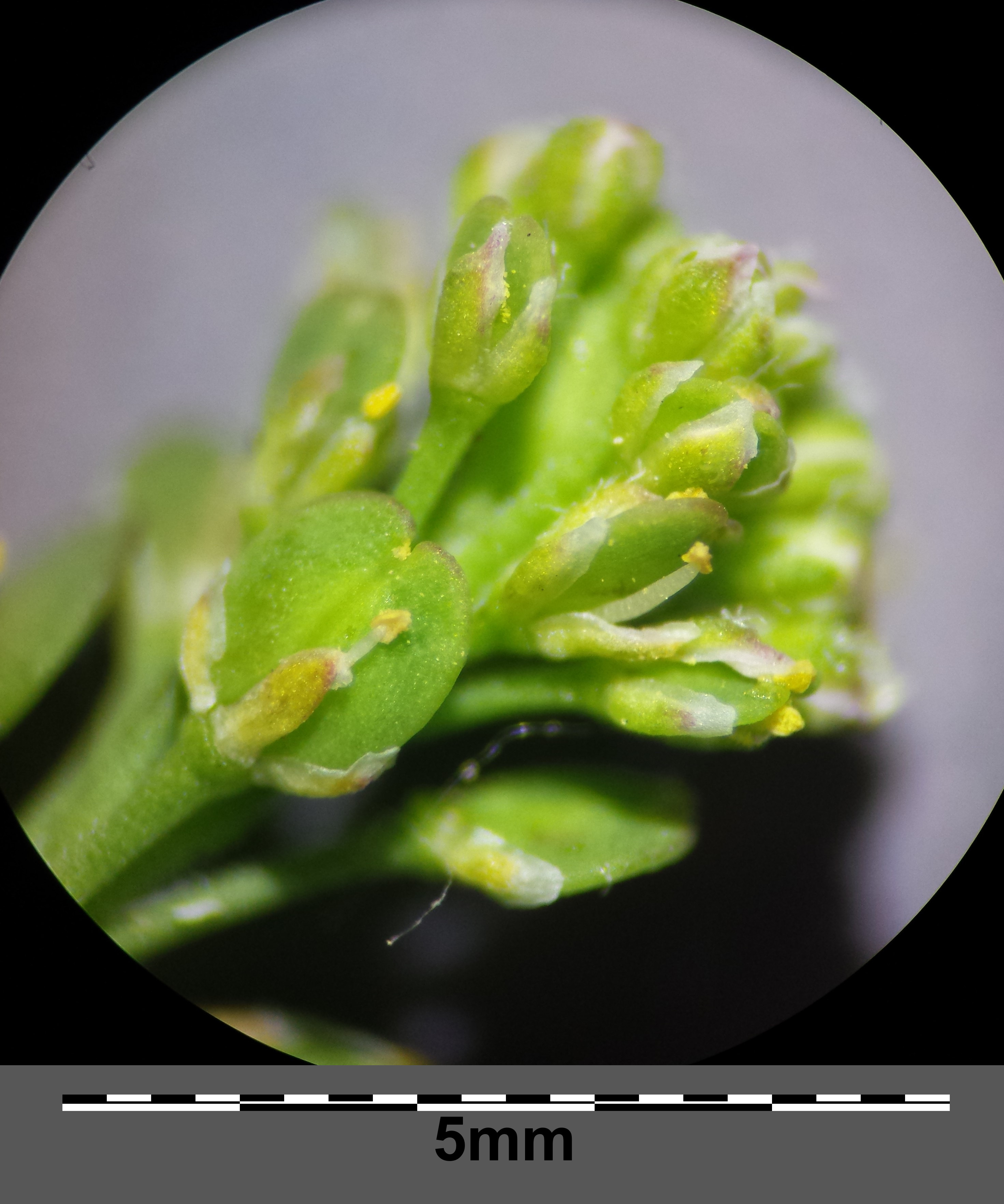 Inflorescence Taxonym: Lepidium densiflorum ss Fischer et al. EfÖLS 2008 ISBN 978-3-85474-187-9 Location: Korneuburg rail station, district Korneuburg, Lower Austria - ca. 170 m a.s.l. Habitat: ruderal area